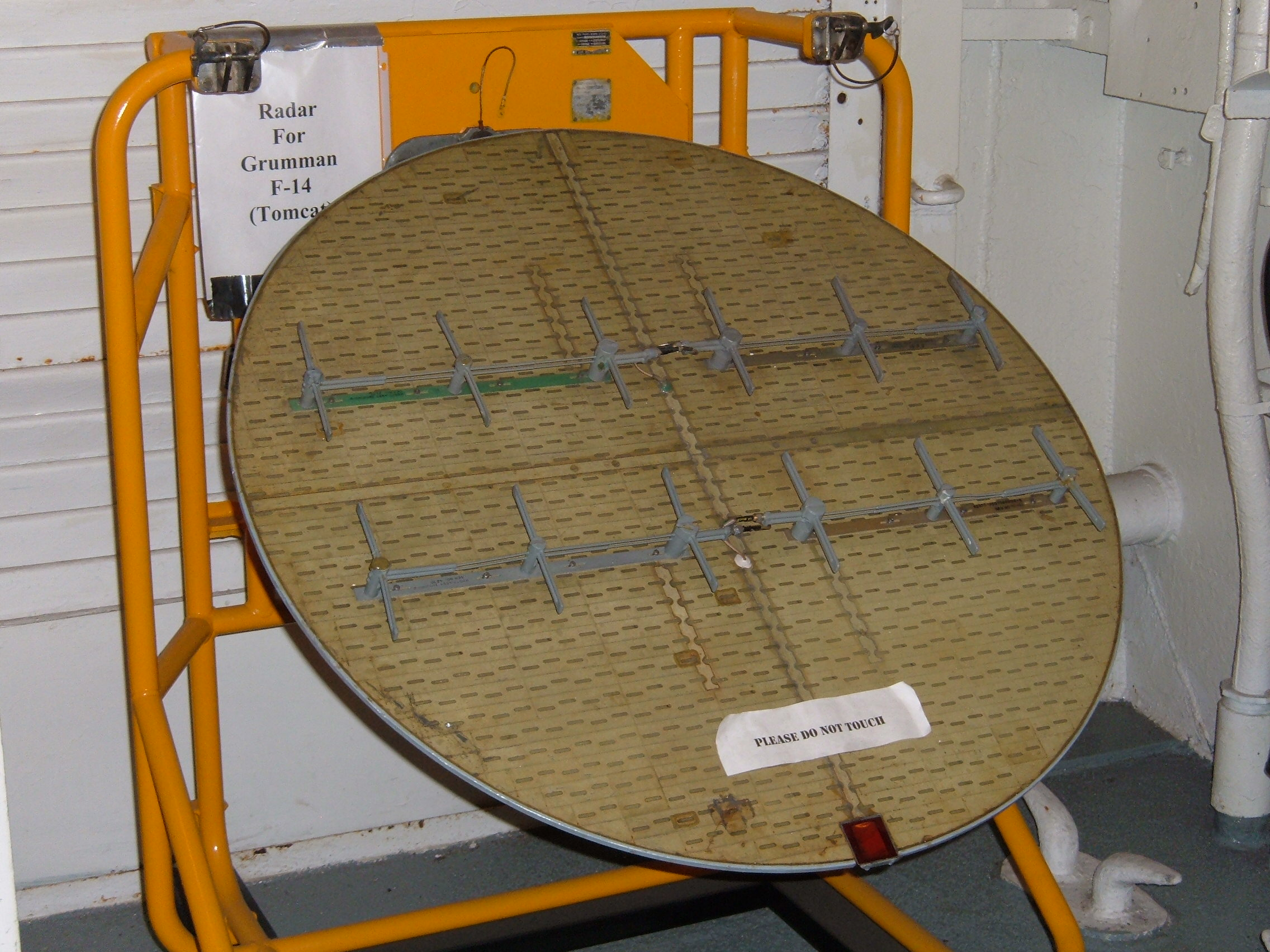 The radar of a F-14 Tomcat on display in the hangar deck of the USS Hornet (CV-12), now the USS Hornet Museum.